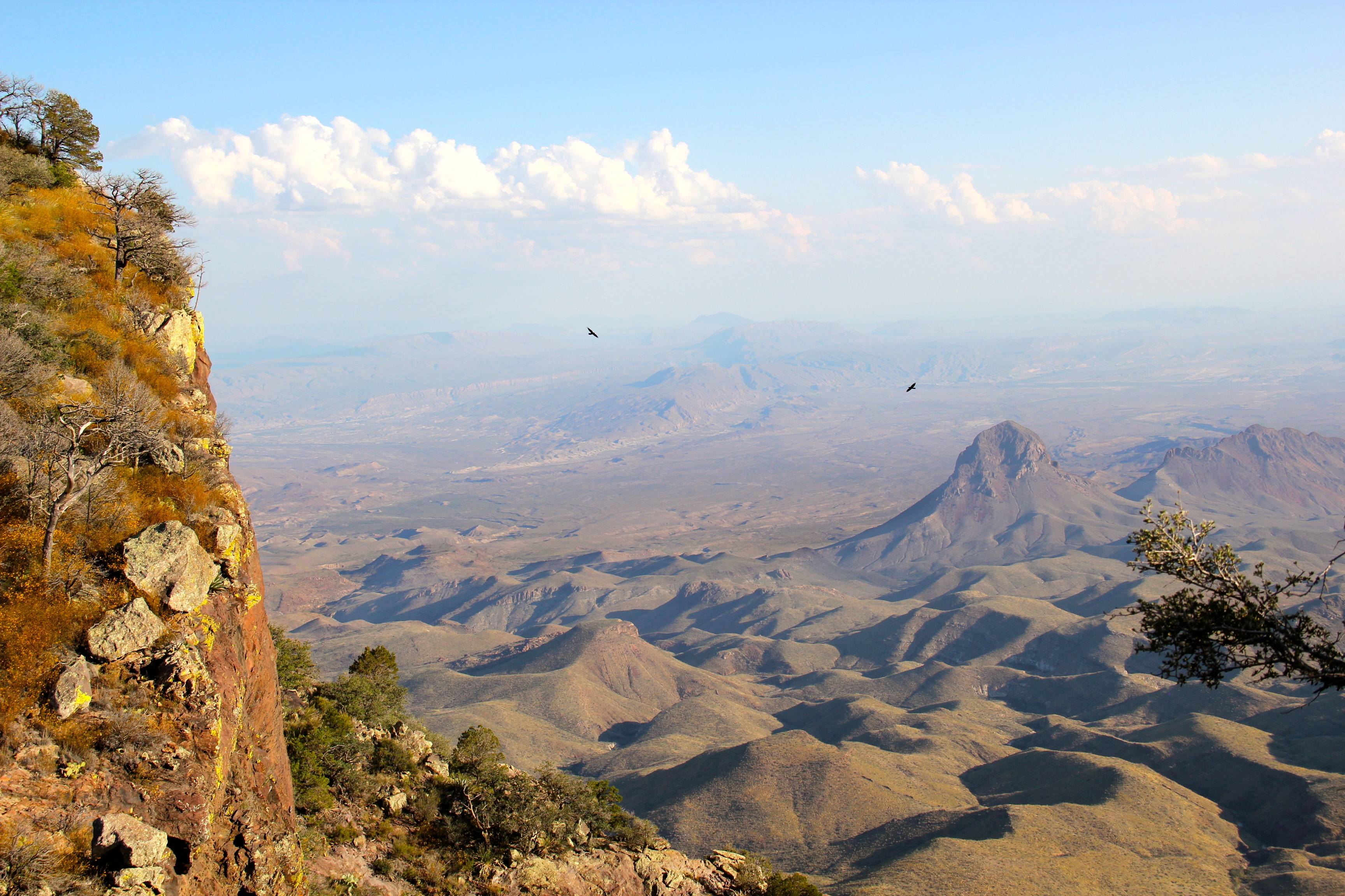 South Rim Trail in Chisos Mountains of Big Bend National Park, Texas